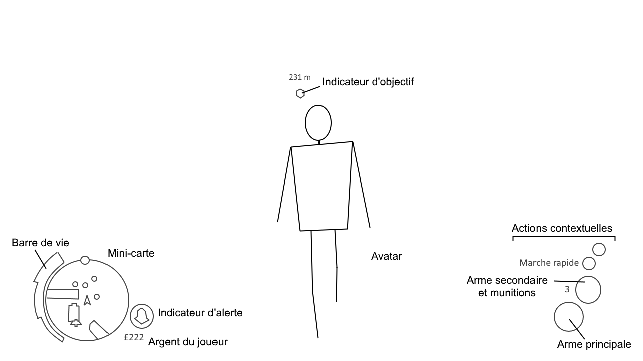 HUD of the game Assassin's Creed III